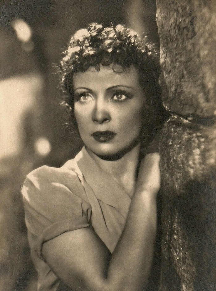 Italian actress Isa Pola